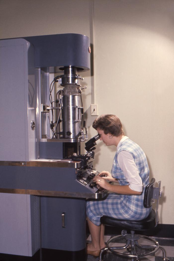 ID#: 10192 Description: This 1960 photograph depicted a laboratory technician who was seated at a transmission electron microscope (TEM), as she was analyzing the ultrastructural details of a laboratory specimen. A TEM works much like a light microscope, however, rather than implementing light waves as a means to illuminate the ultrastructural details of a slide specimen, electrons, which travel at a much lower wavelength, and therefore, enable the observer to seen these details under a resolution many times greater than when using light. Electromagnets are used as the lenses for this device rather than glass lenses, focusing the beams of electrons through the specimen, which finally hit a fluorescent screen that scintillates when the electrons hit its sensitive surface. Copyright Restrictions: None - This image is in the public domain and thus free of any copyright restrictions. As a matter of courtesy we request that the content provider be credited and notified in any public or private usage of this image.